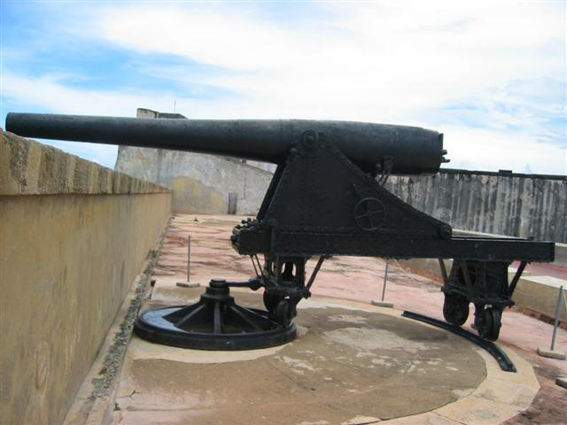 Cannon - Fort San Cristobal San Juan. Spanish Ordóñez 15 cm Modelo 1885 gun.